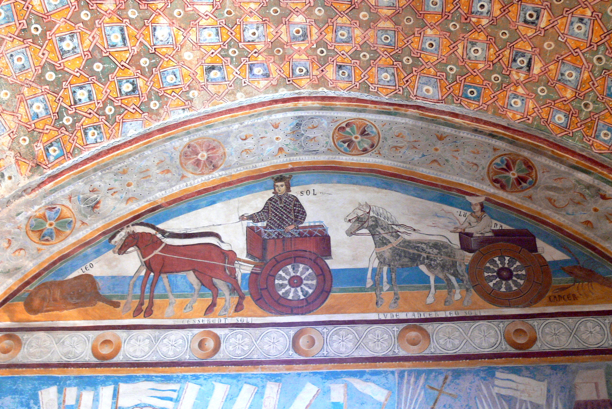 Angera castle ( Varese ). Hall of Justice - Fresco showing astrological signs of summer.